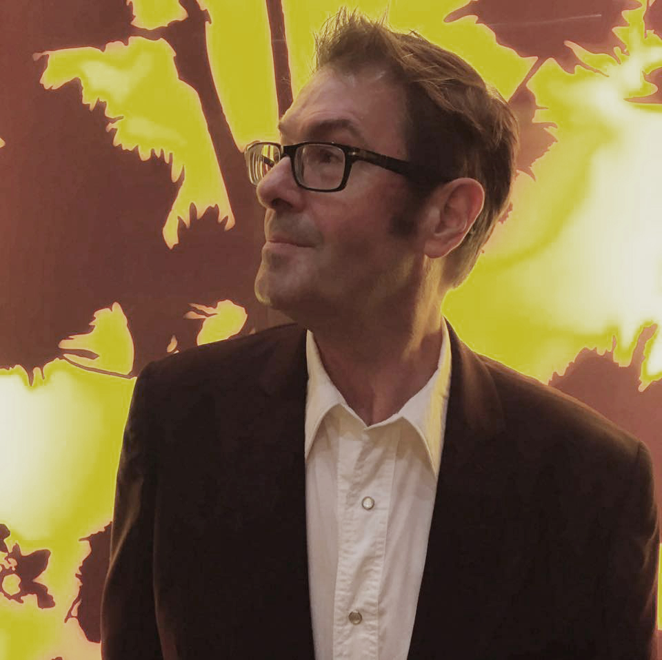 Americana singer/songwriter Russ Tolman